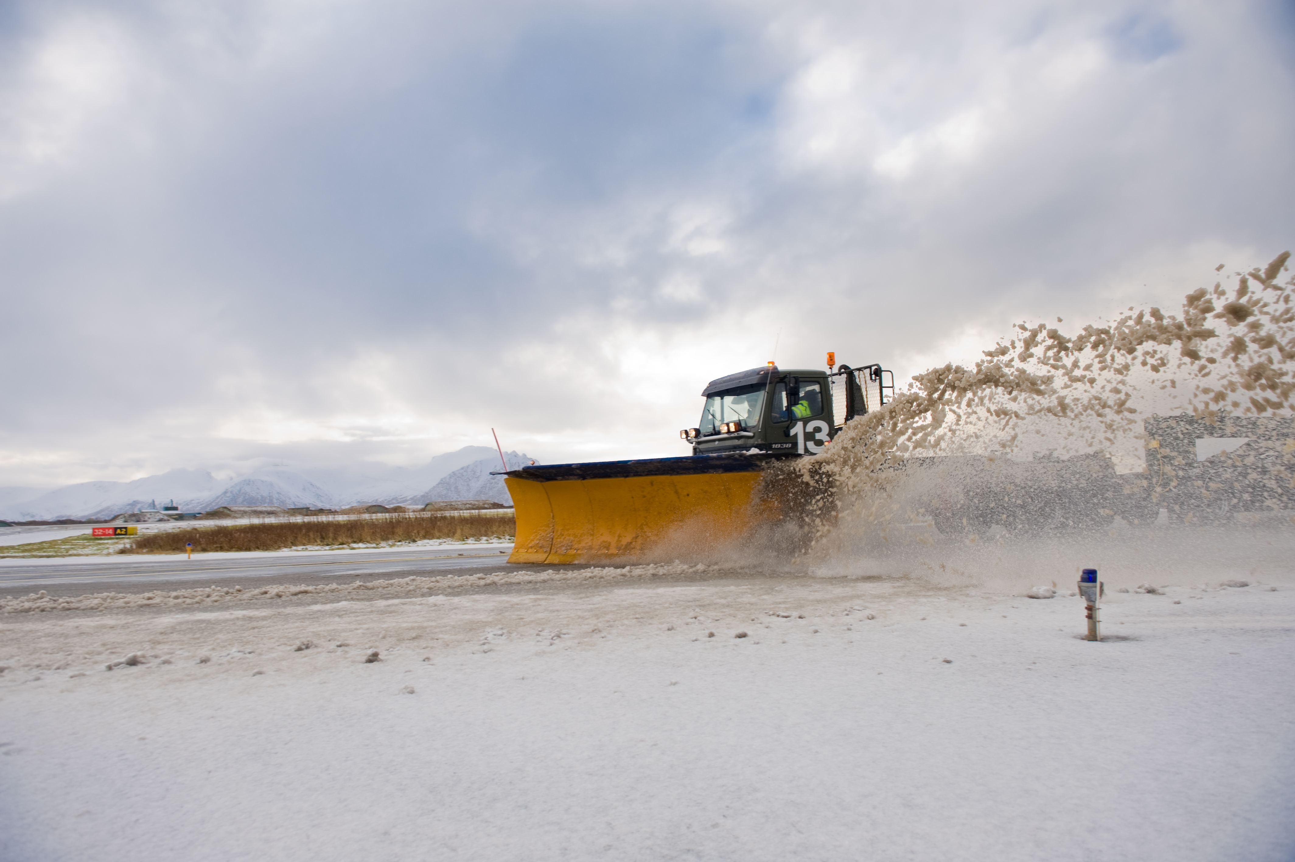 andøya (23 of 40)